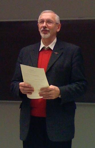 Tiit Rosenberg, professor of Estonian History in University of Tartu on a meeting of Õpetatud Eesti Selts